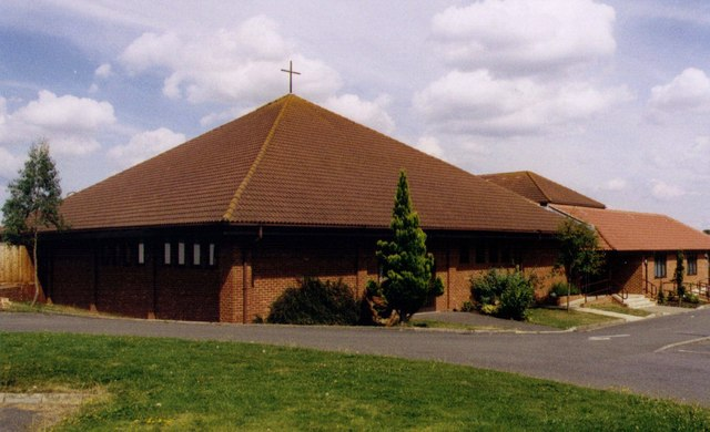 St Joseph, South Ham, Basingstoke Modern Church erected in 1988.